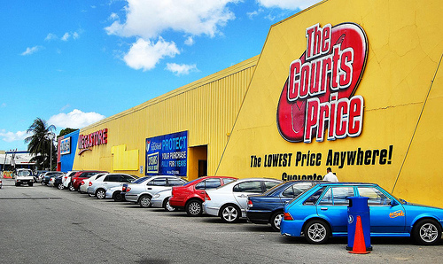 Courts Megastore, Barataria, Trinidad